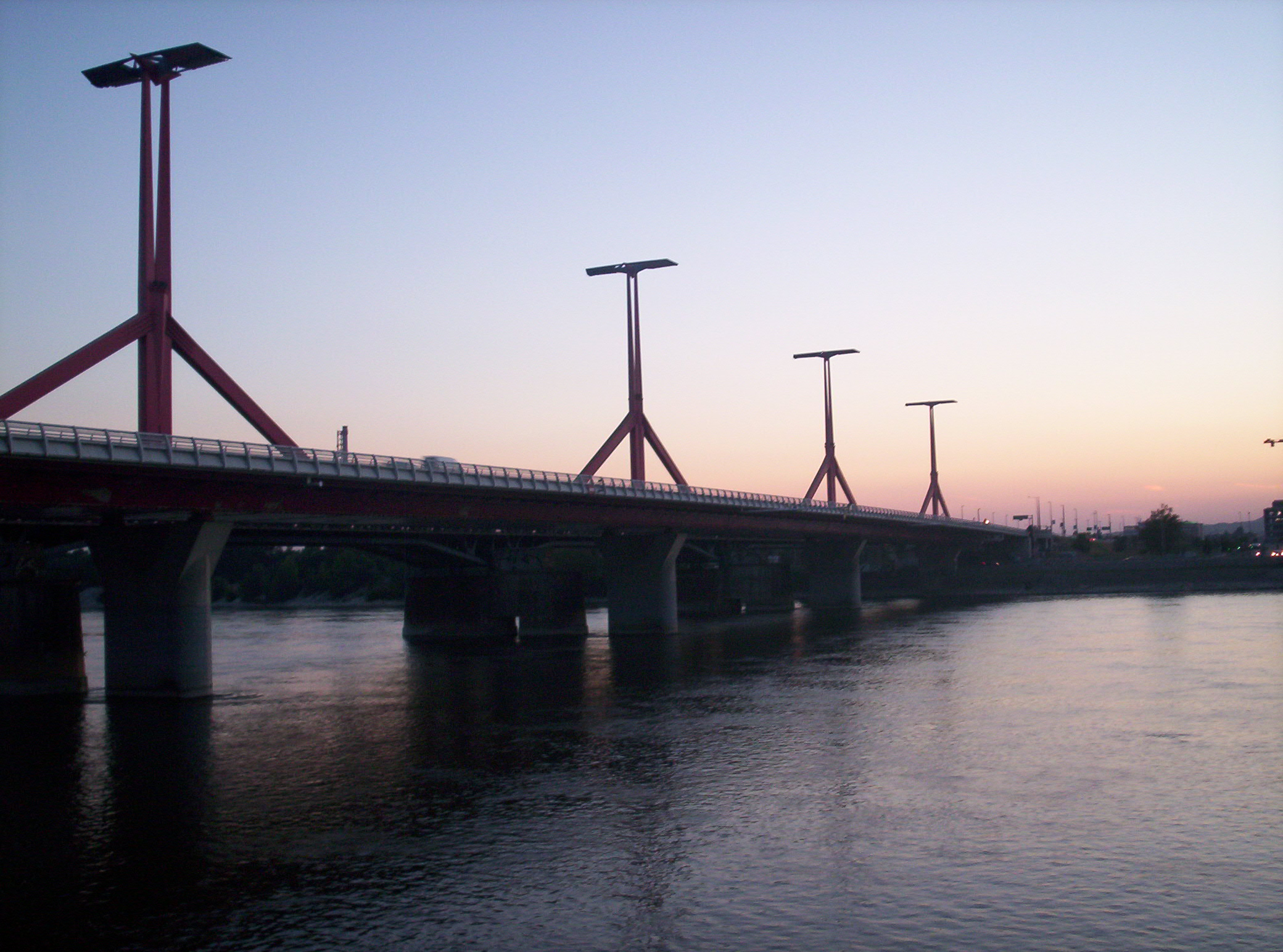 Lágymányosi bridge